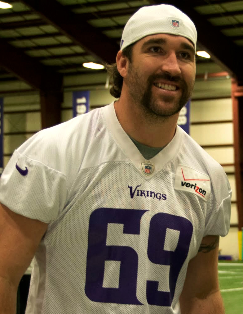 Minnesota Vikings DE Jared Allen